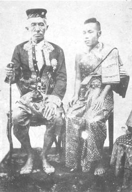 Photograph of King Mongkut or Rama IV and Queen Debsirindra of Siam